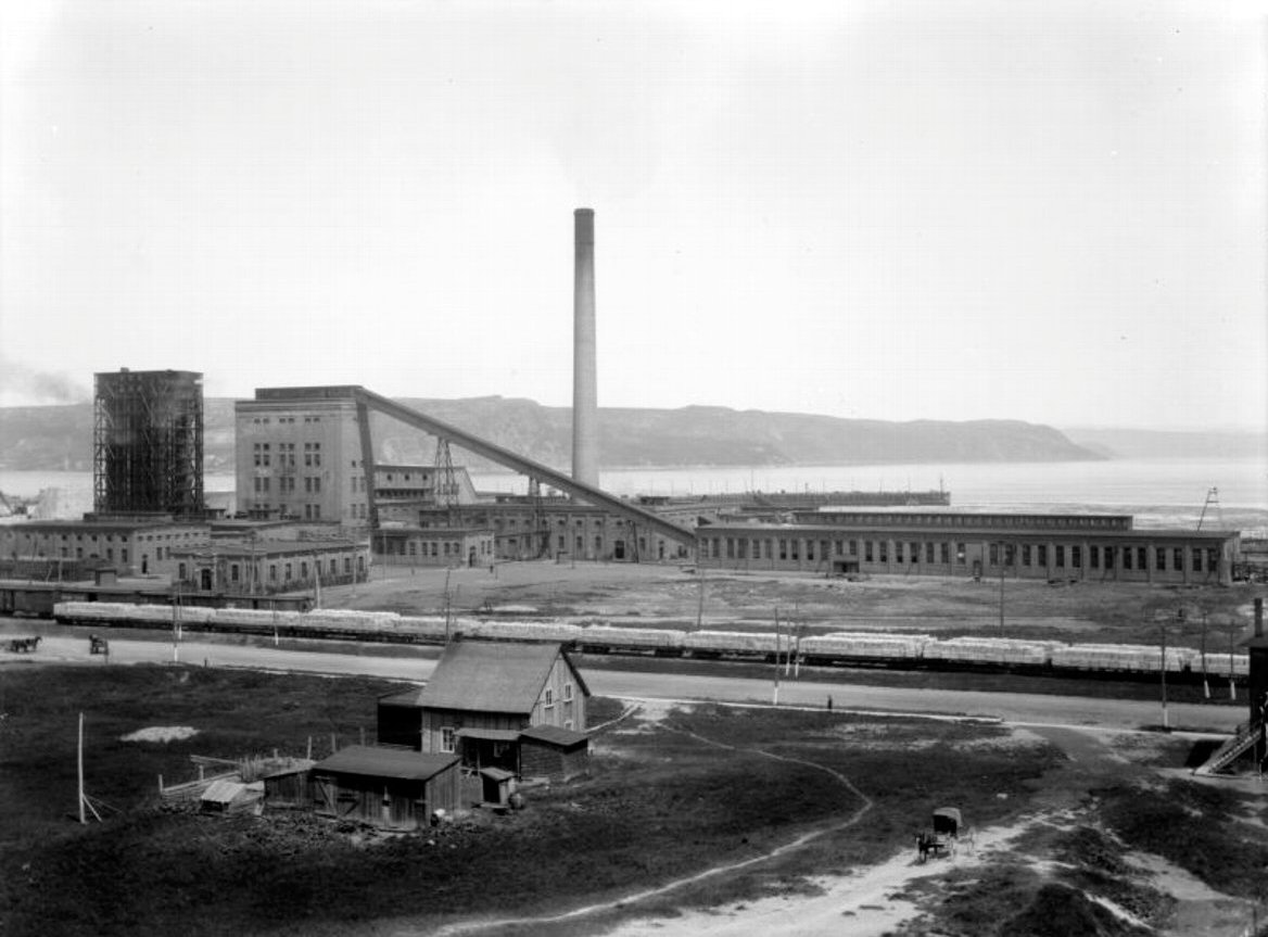 Ha! Ha! Bay Sulfites (Port-Alfred)